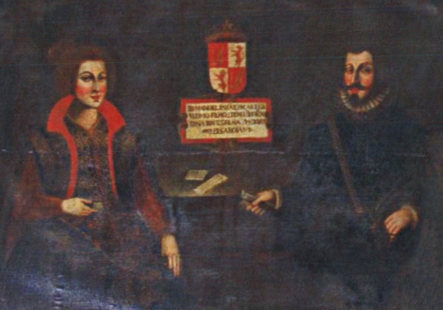 Manoel, Infante of Castile and Beatrice of Savoy, in a 17th-century painting in the Palace of the Counts of Ficalho, in Serpa, Portugal.